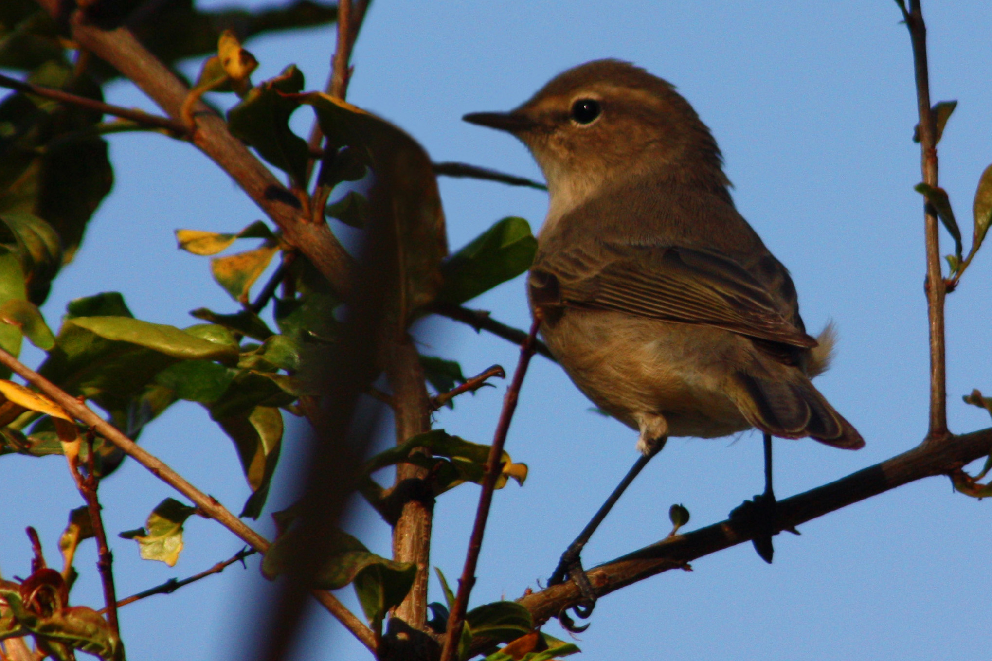 Plain leaf warbler (phylloscopus neglectus) at Zighy Bay in the Musandam Peninsula, Oman